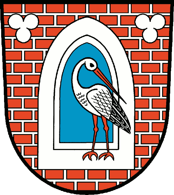 Coat of arms of Gramzow